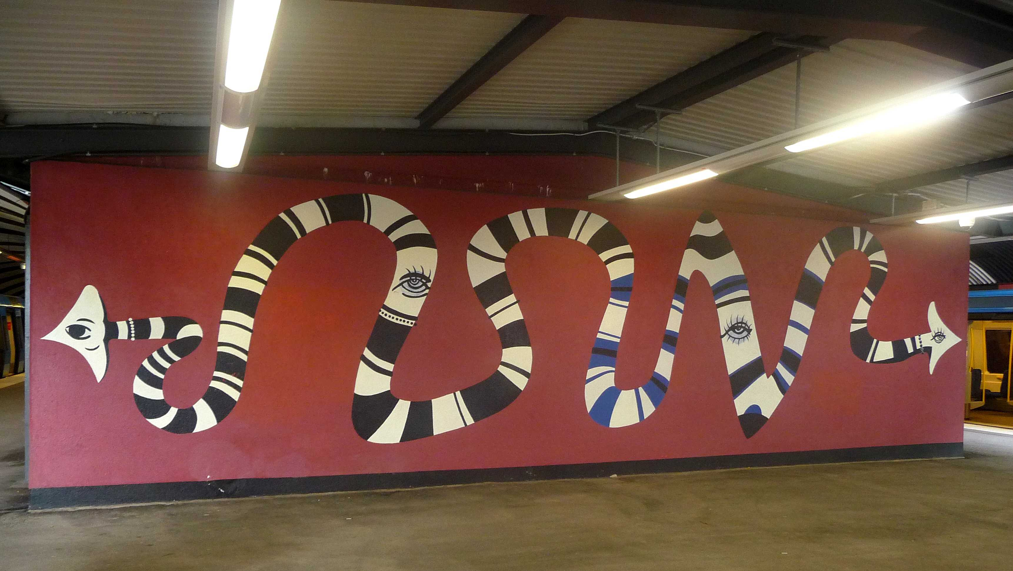 Subway art at the Ropsten tube station.